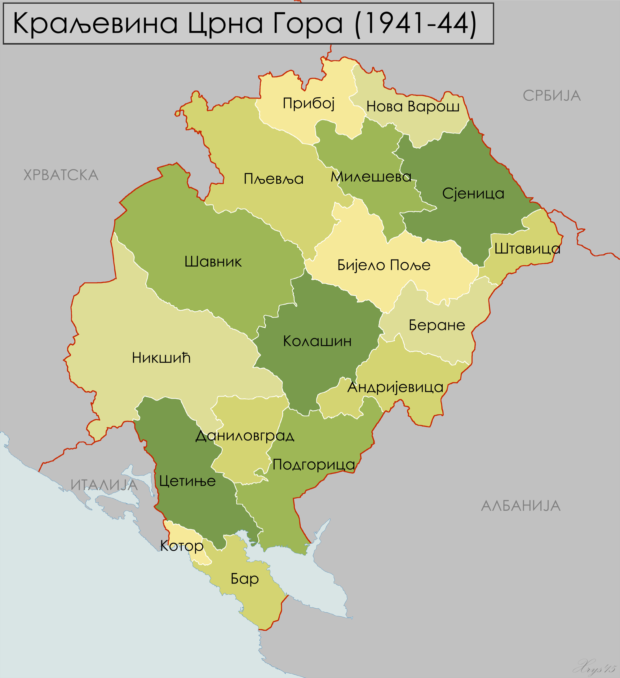 Map of the Kingdom of Montenegro 1941-44